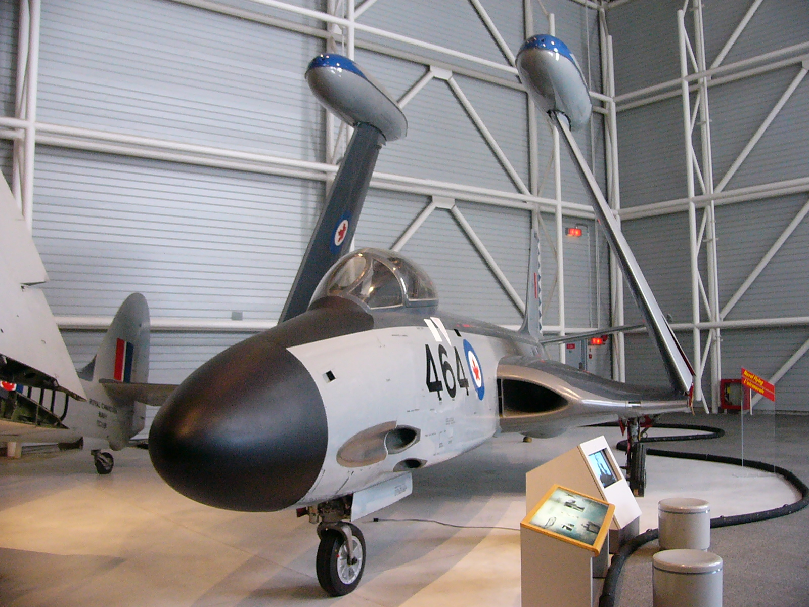 A McDonnell F2H Banshee of the Royal Canadian Navy at the Canada Aviation Museum (now called the Canada Aviation and Space Museum)